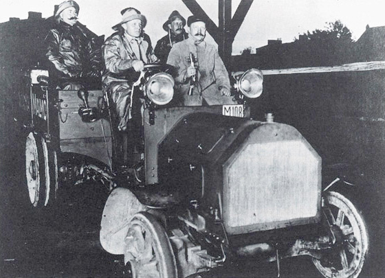 Test of SKF wheel bearings on a Scania truck 1909. Sven Wingquist is sitting in the back to the right on the picture.